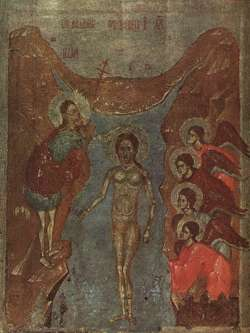 Theophany (Epiphany)